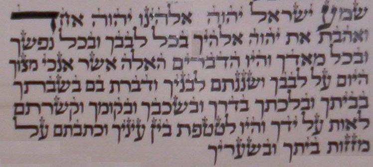 The first paragraph of the Shema as written in a Mezuzah or Tefillin)